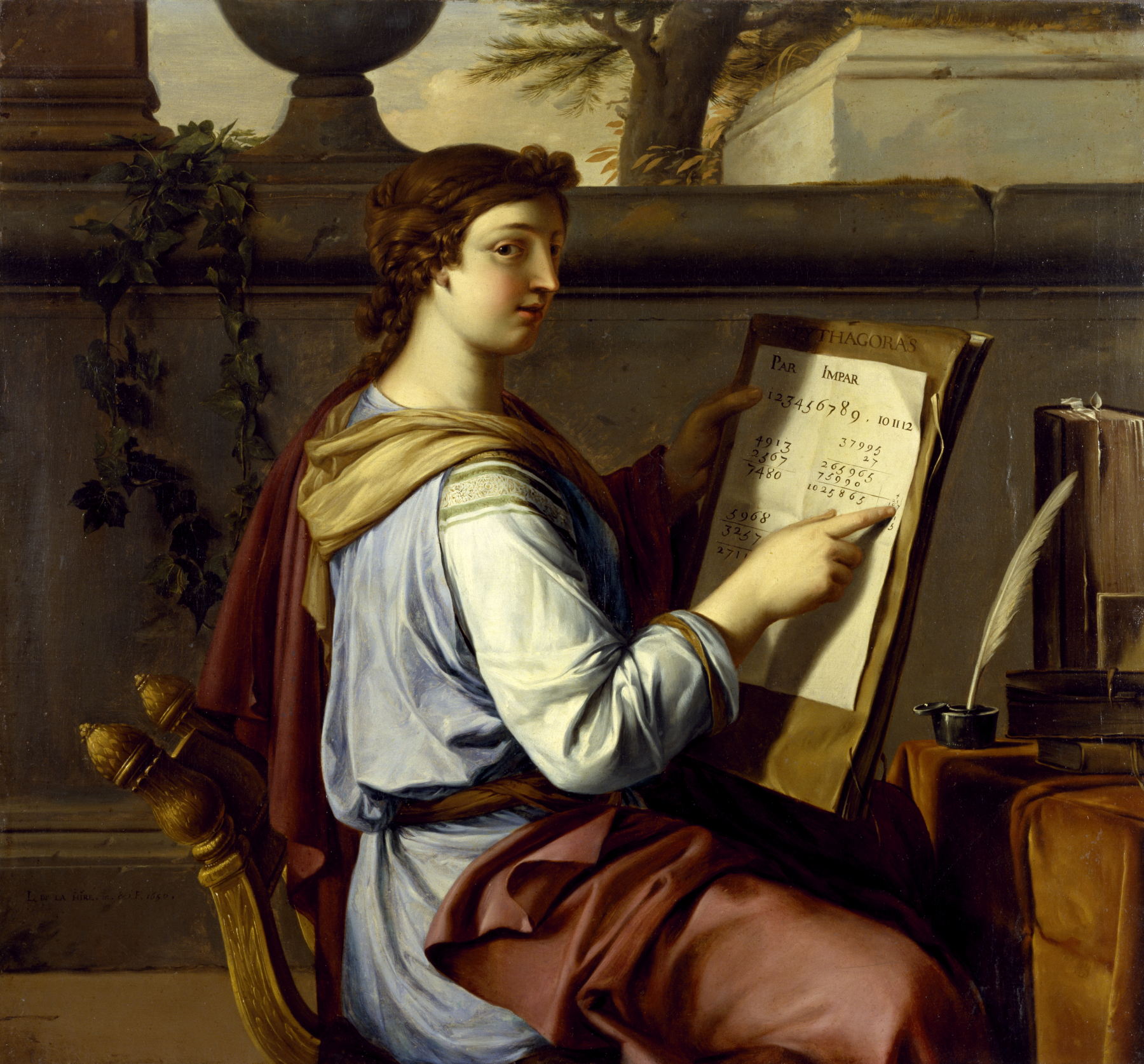 The importance of the intellect was often celebrated in representations of the Seven Liberal Arts: Grammar, Rhetoric, Logic, Geometry, Arithmetic, Astronomy, and Music. They could be personified as poised young women in a setting and clothing suggestive of ancient Greece, the homeland of Western abstract thought. On the book held by Arithmetic is the name of the Greek mathematician Pythagoras, while on the worksheet are the primary mathematical functions: addition, subtraction, and multiplication. La Hyre produced at least two such series--including the "Allegory of Grammar" (Walters 37.862)--as decoration for the homes of the wealthy. He conveys this classical theme with the cool, rounded, carefully balanced forms of the new idealized style inspired by Raphael and Greco-Roman sculpture.